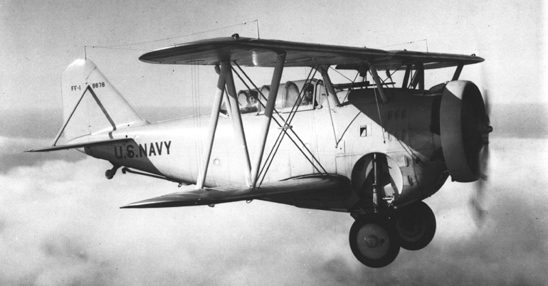 The U.S. Navy prototype Grumman XFF-1 "Fifi" fighter (BuNo A8878) in flight. It made its first flight on 29 December 1931.